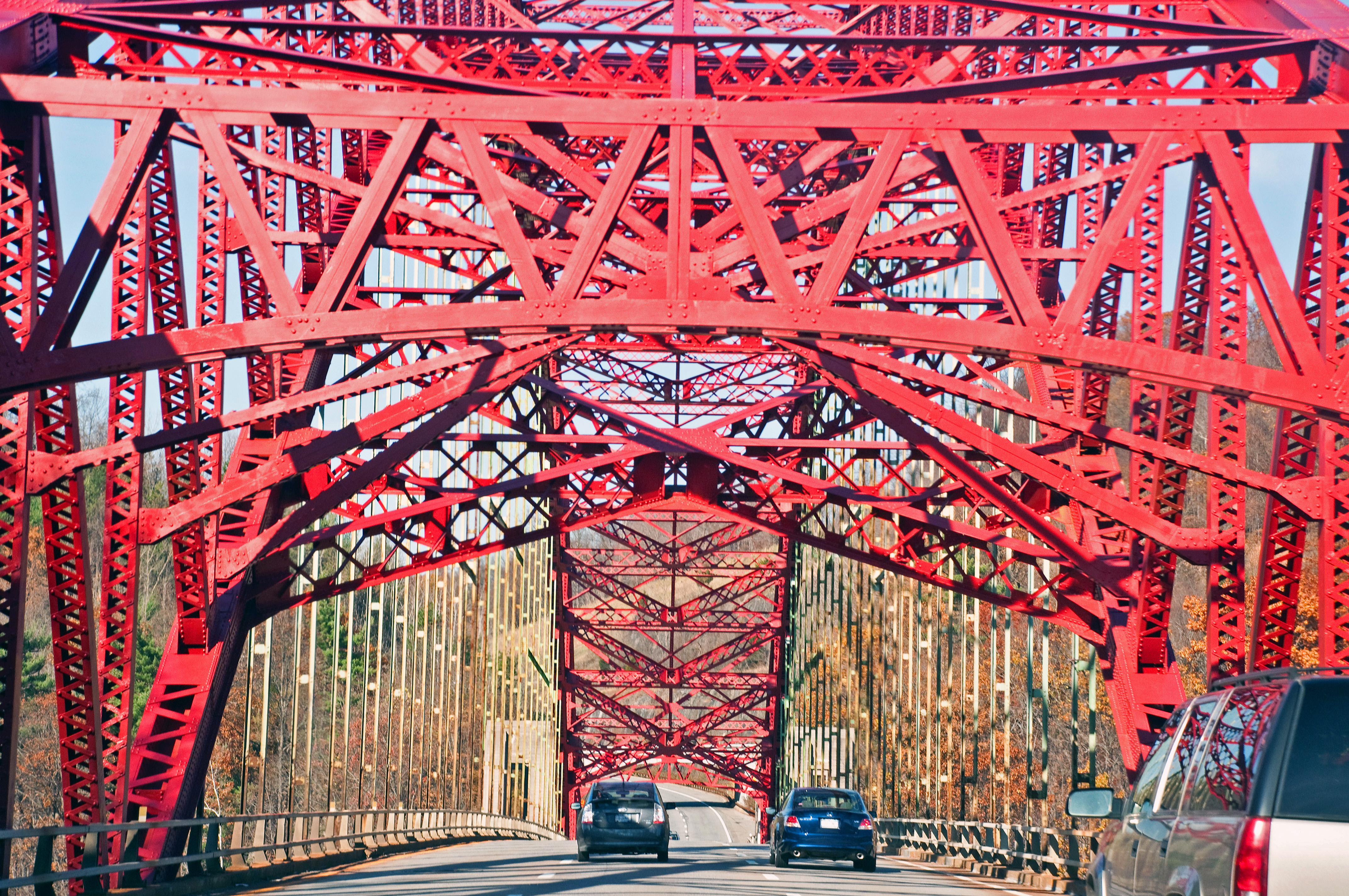 Amvets Bridge, Taconic Parkway, New York, 7 Nov. 2009